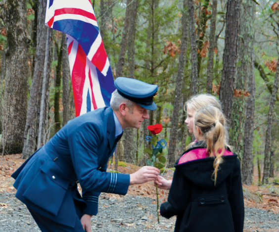 Royal Air Force Squadron Leader Maj. Craig O'Donnell presenting a rose to Choctaw Indian students from Rattan, Oklahoma to place on a "natural tombstone" adjacent to the rededication of the AT6 Monument on Big Mountain, Oklahoma on Feb. 18, 2018. The monument honors four fallen RAF fliers who crashed and perished in the Kiamichi Mountains on Feb. 20, 1943.